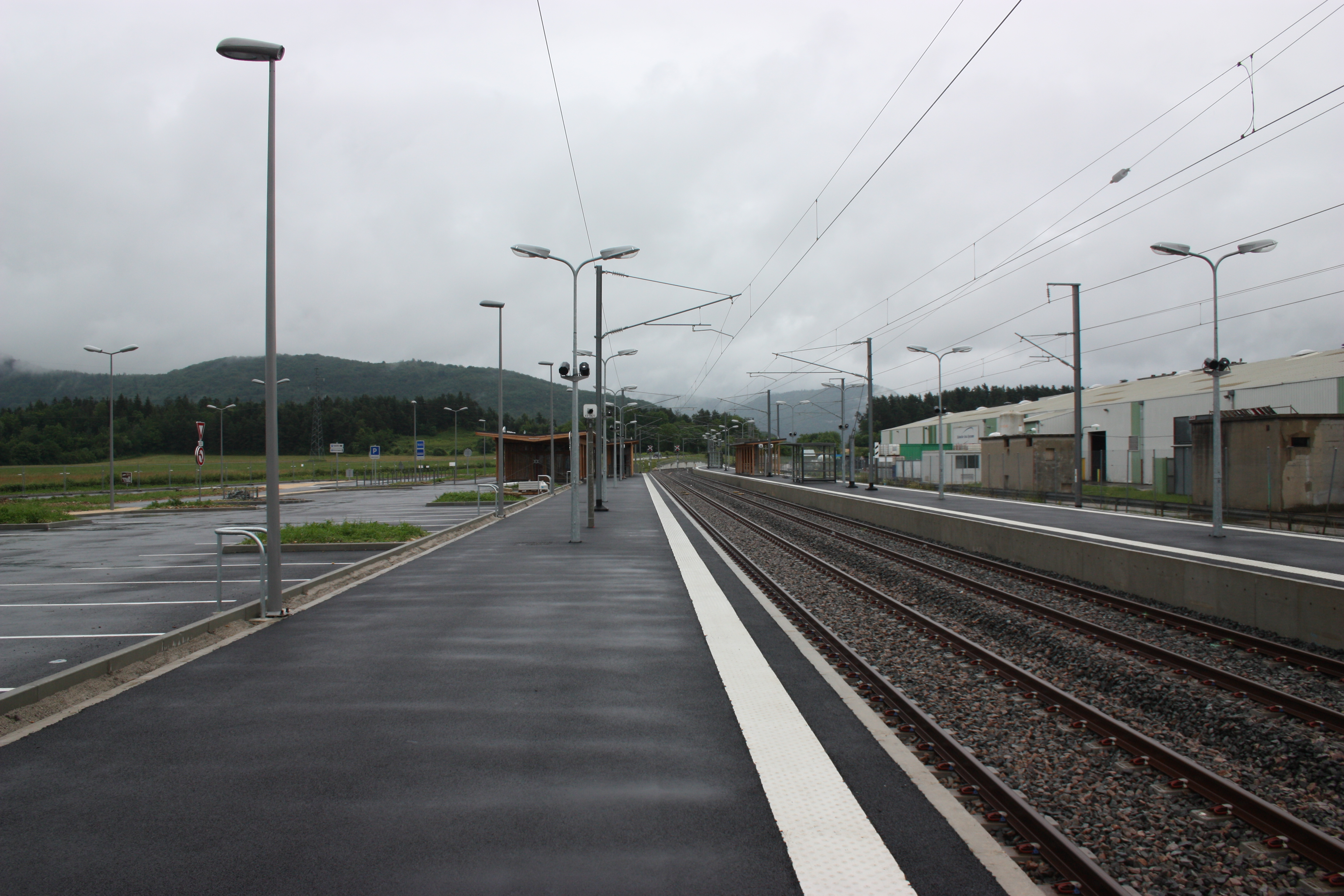 Railroad station of Nurieux